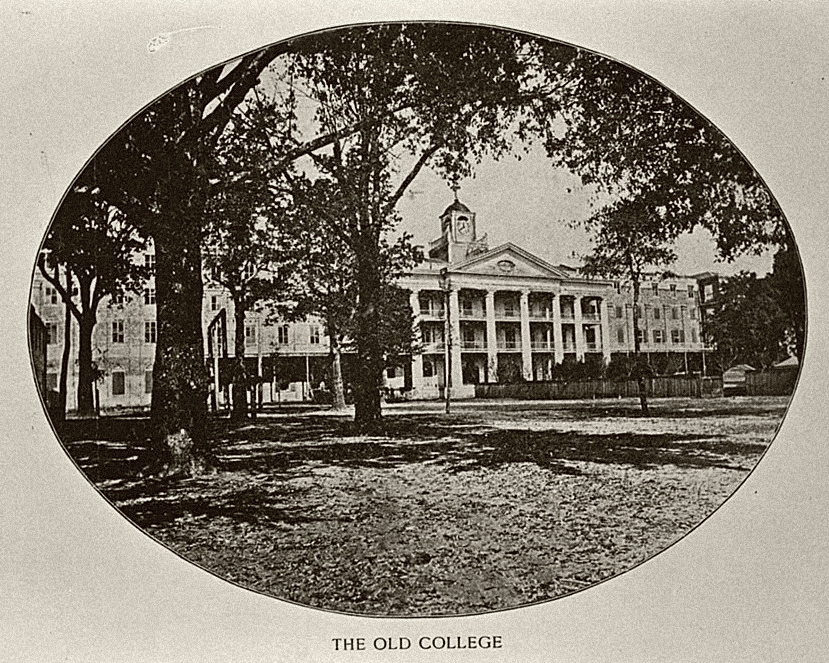 Spring Hill College, Original Building, Old Shell Road, Spring Hill, Mobile County, AL. This structure burned in 1869.